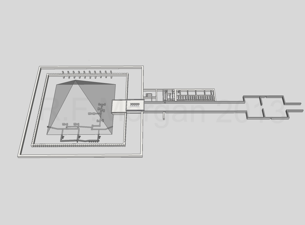 Drawing of the pyramid of Amenemhat III at Dashur from the south. Taken from a 3d model